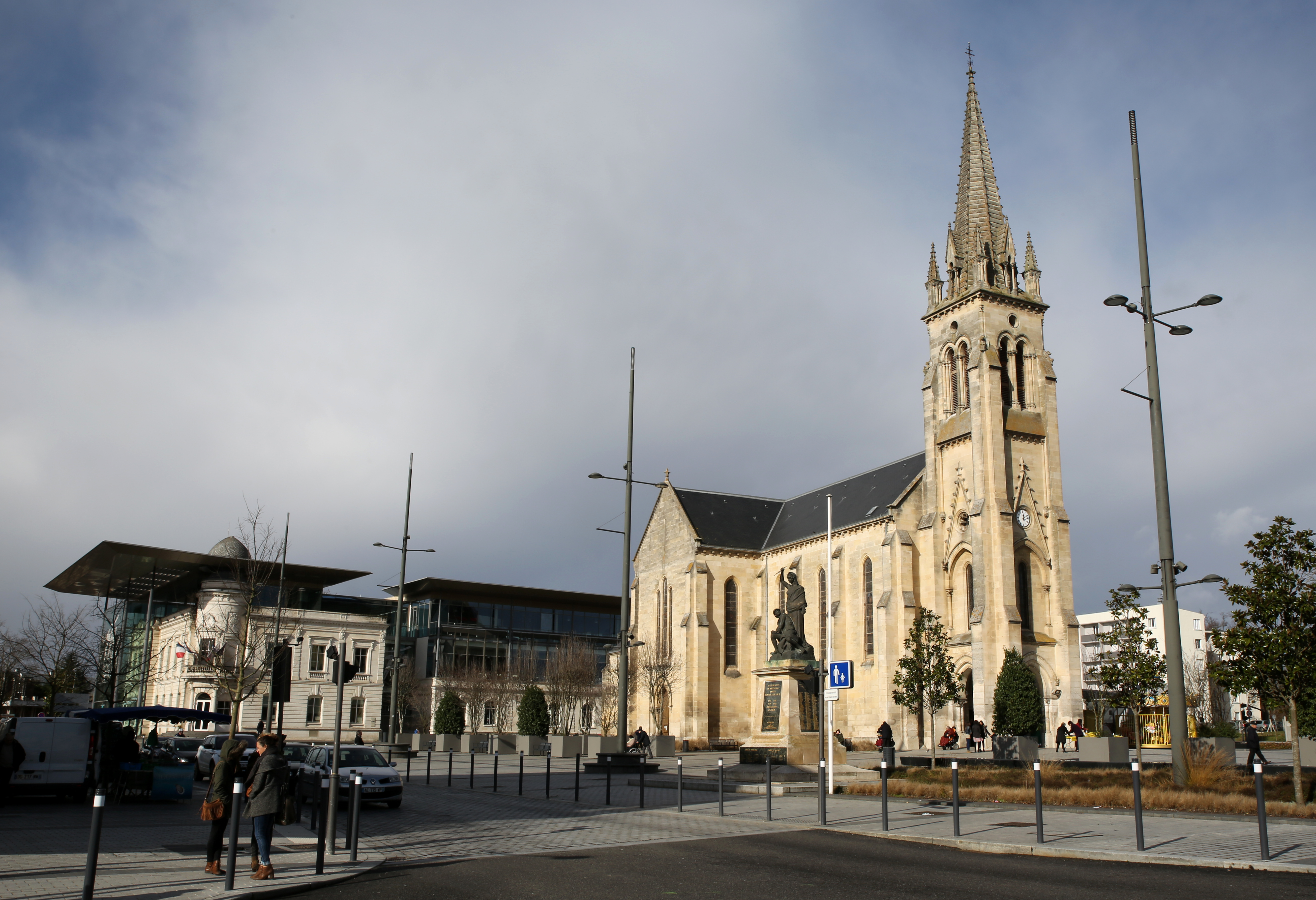 Place Mérignac